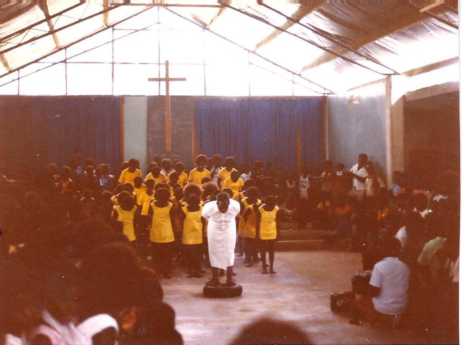 Village United Church in a choral competition in Siwai, North Solomons